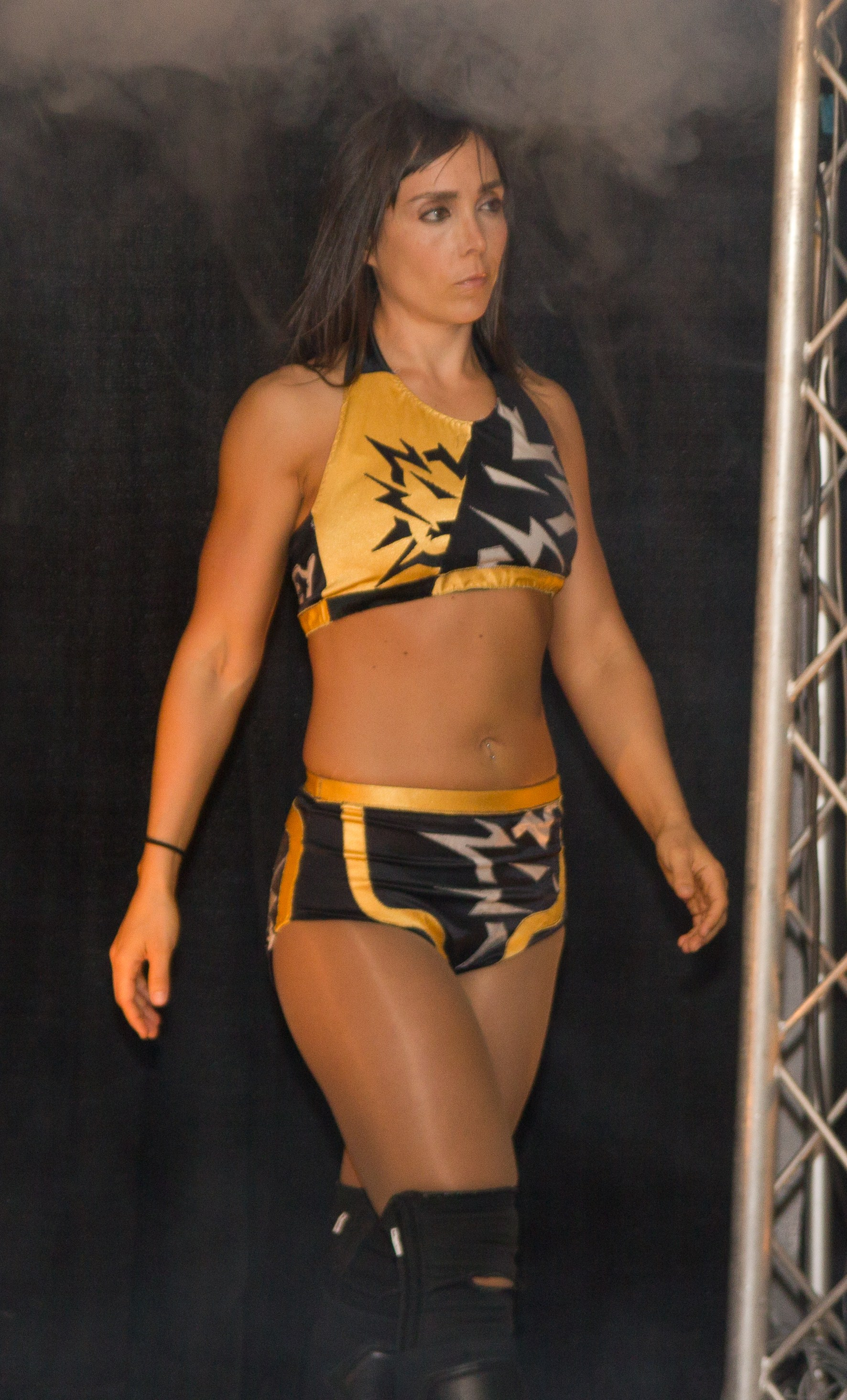 Wrestler Sara Del Rey making his ring entrance at Chikara's A Foggiest Notion show in Strathroy, ON